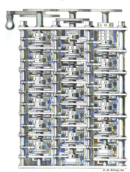 Part of Charles Babbage's Difference Engine No. 1, as assembled in 1833, exhibited 1862, and later in the South Kensington Museum.